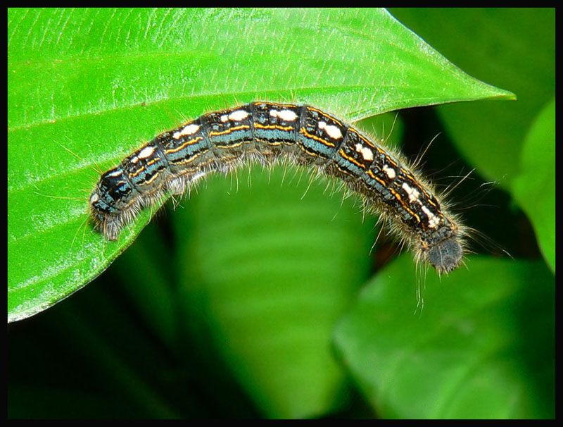 Greg Hume (talk) 20:25, 5 June 2010 (UTC) Photo by Greg Hume.